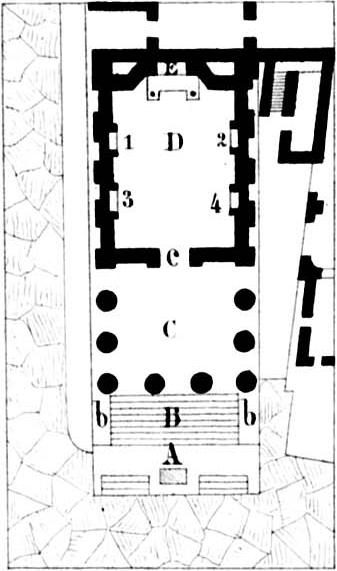 Temple of Fortuna Augusta, Regio 7, insula 4, plan.